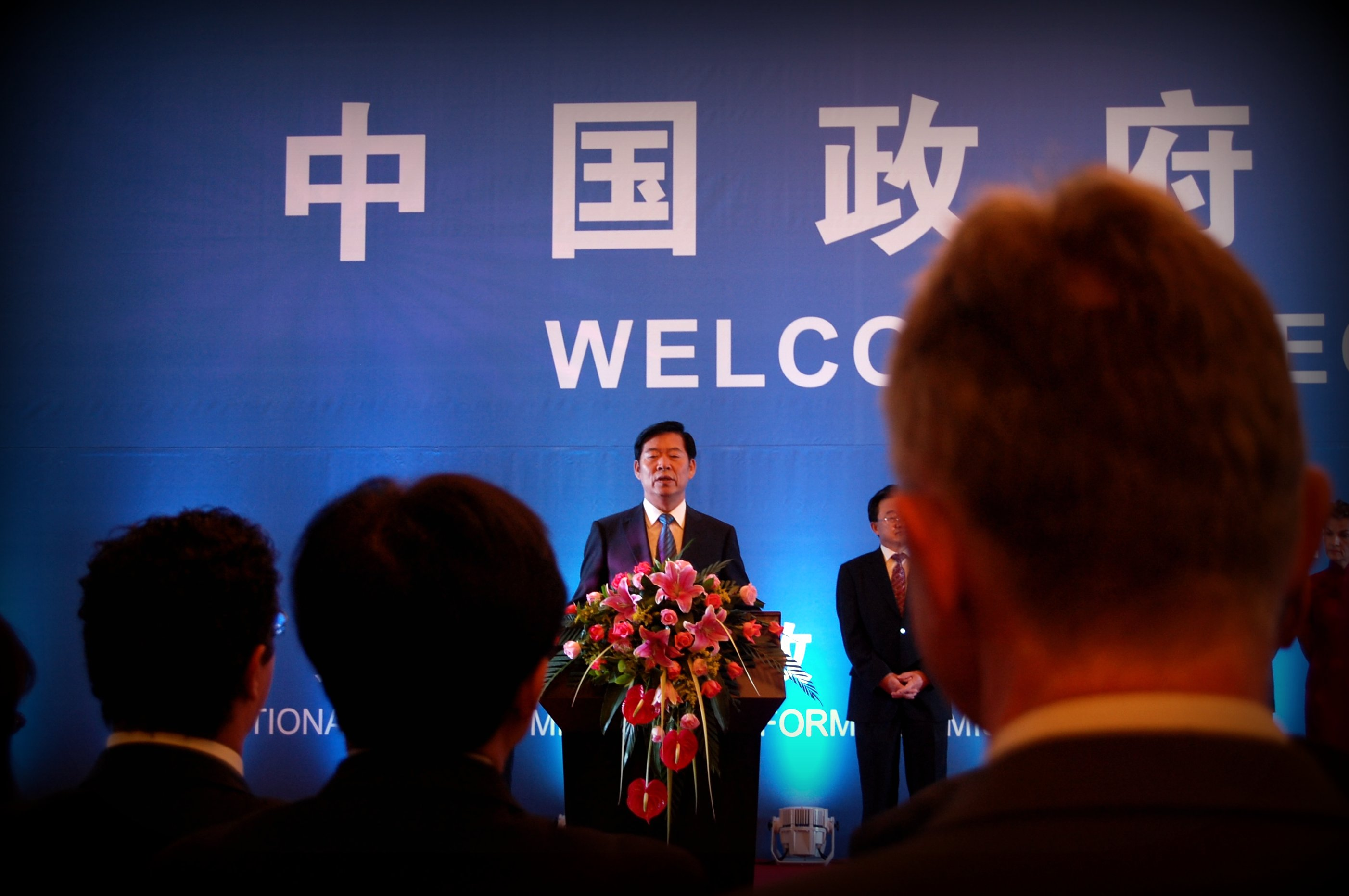 Top government and party officials of the People's Republic of China formally welcome delegates to the 15th Conference of Parties of the United Nations Framework Convention on Climate Change during a state banquet tendered at Tianjin's Meijiang Convention and Exhibition Center (October 2010).